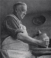 Photo of French ceramist Emile Lenoble at work